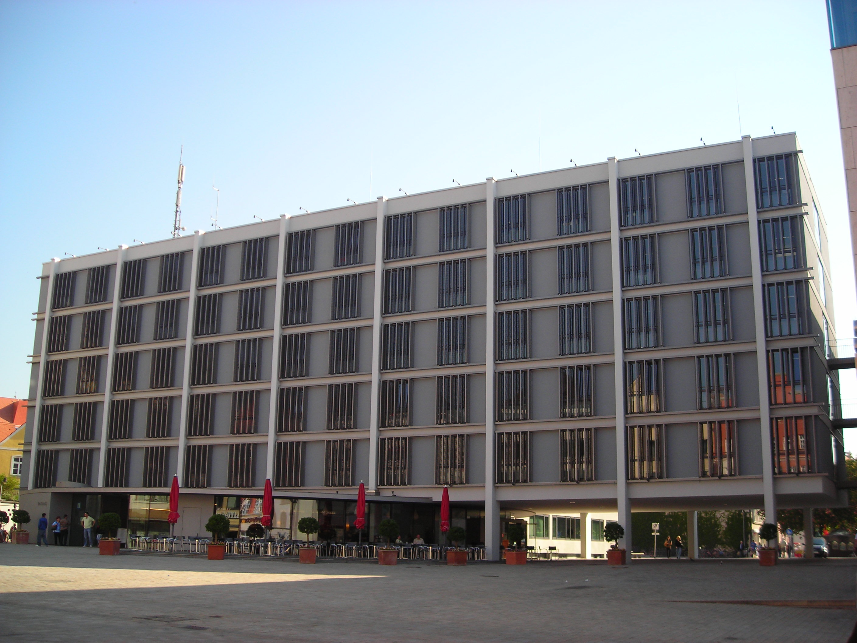 Ingolstadt, west façade of the New City Hall.